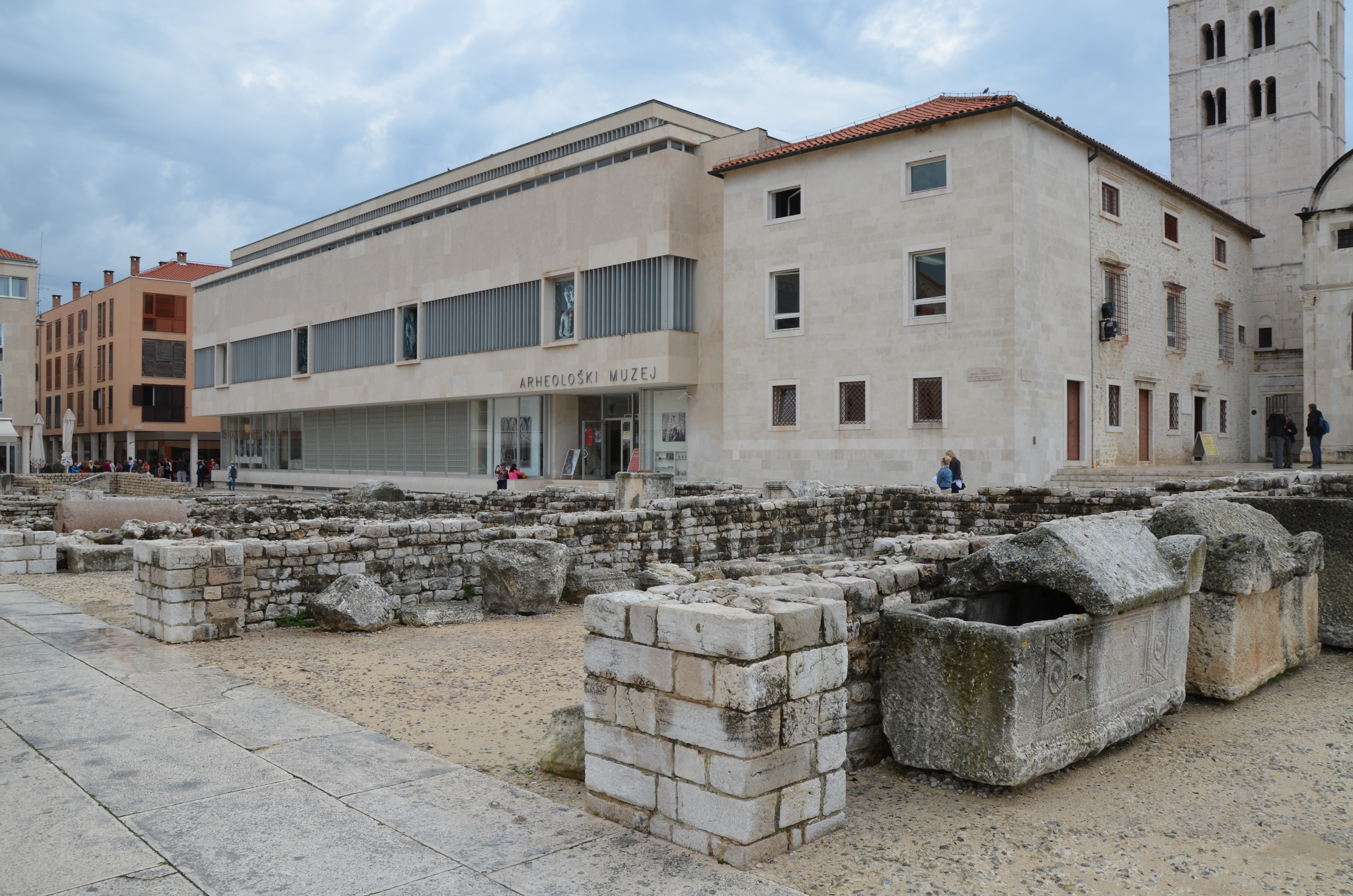 The Roman forum remains of Iader, Zadar, Croatia